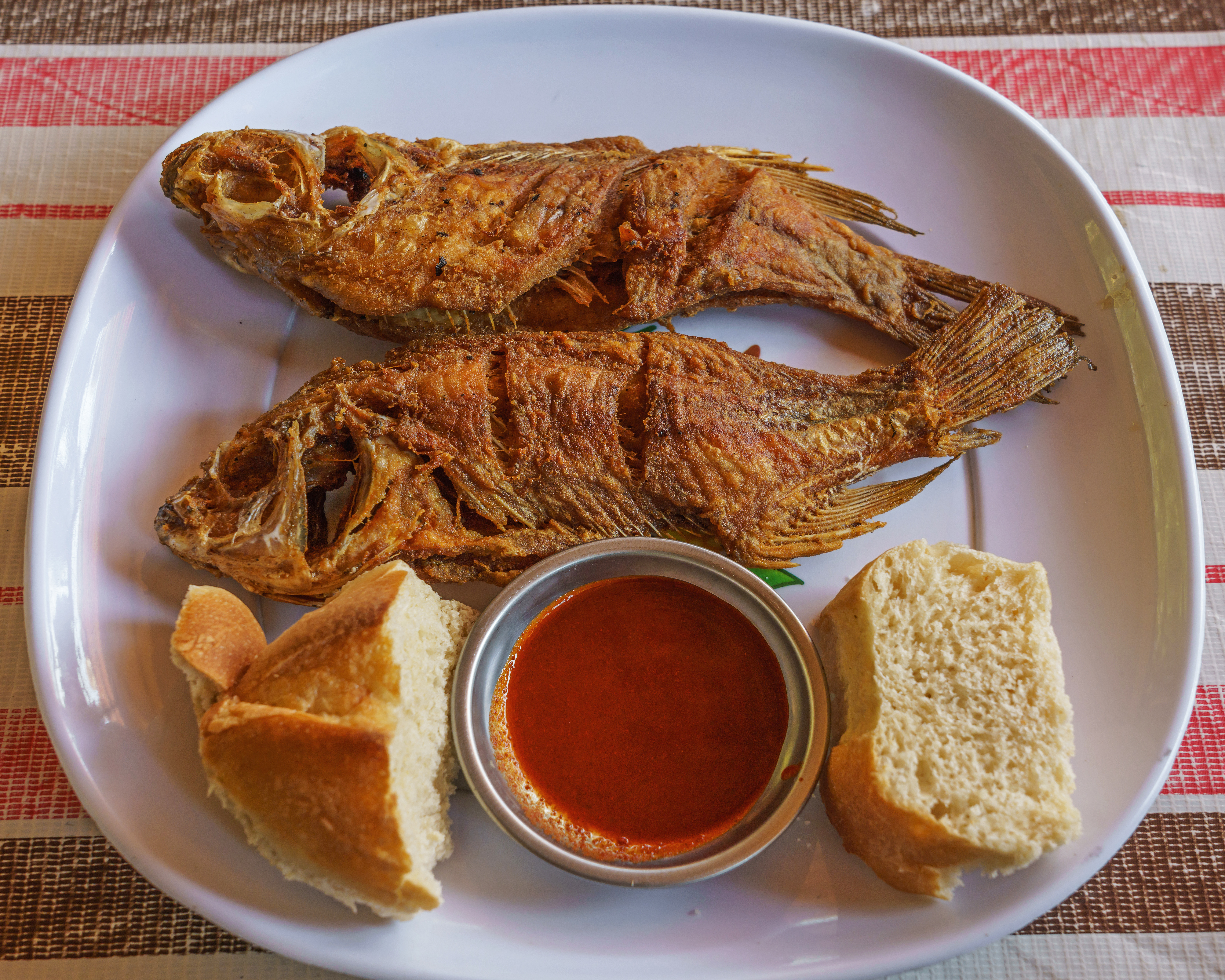 Fried fish, restaurant at Debre Mariam Monastery – Lake Tana near Bahir Dar, Ethiopia